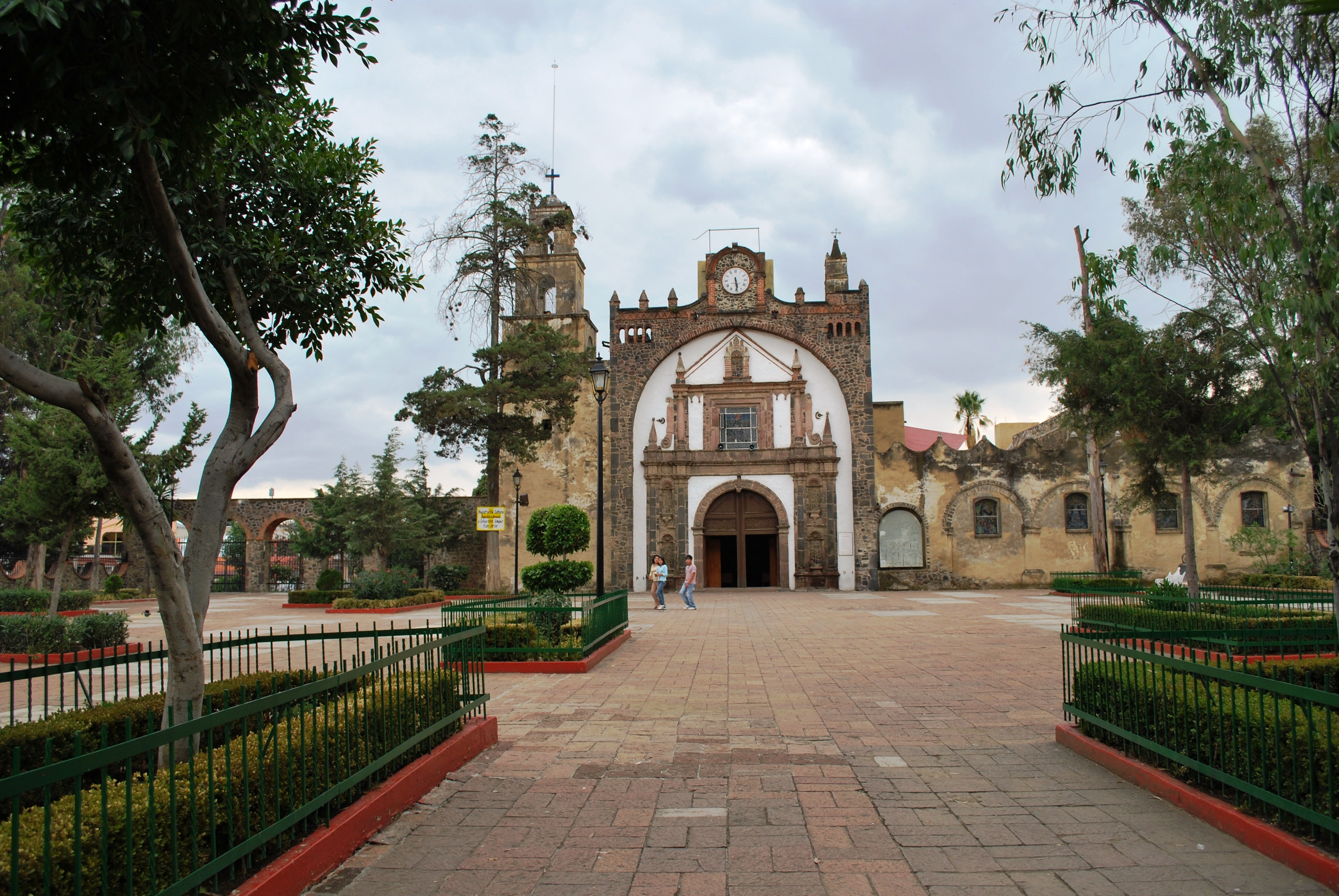 Facade and atrium of the Parish of San Pedro Church in the community of San Pedro Atocpan in the borough of Milpa Alta in the Federal District of Mexico (Mexico City)